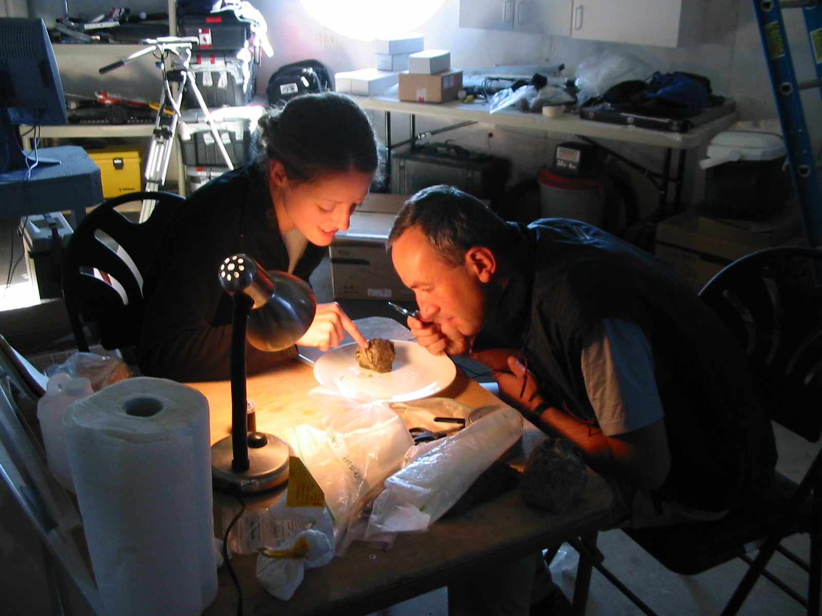 Crew 3 members Charles Frankel and Cathrine Frandsen examine rock samples in the lab of the Flashline Mars Arctic Research Station on July 22, 2001.